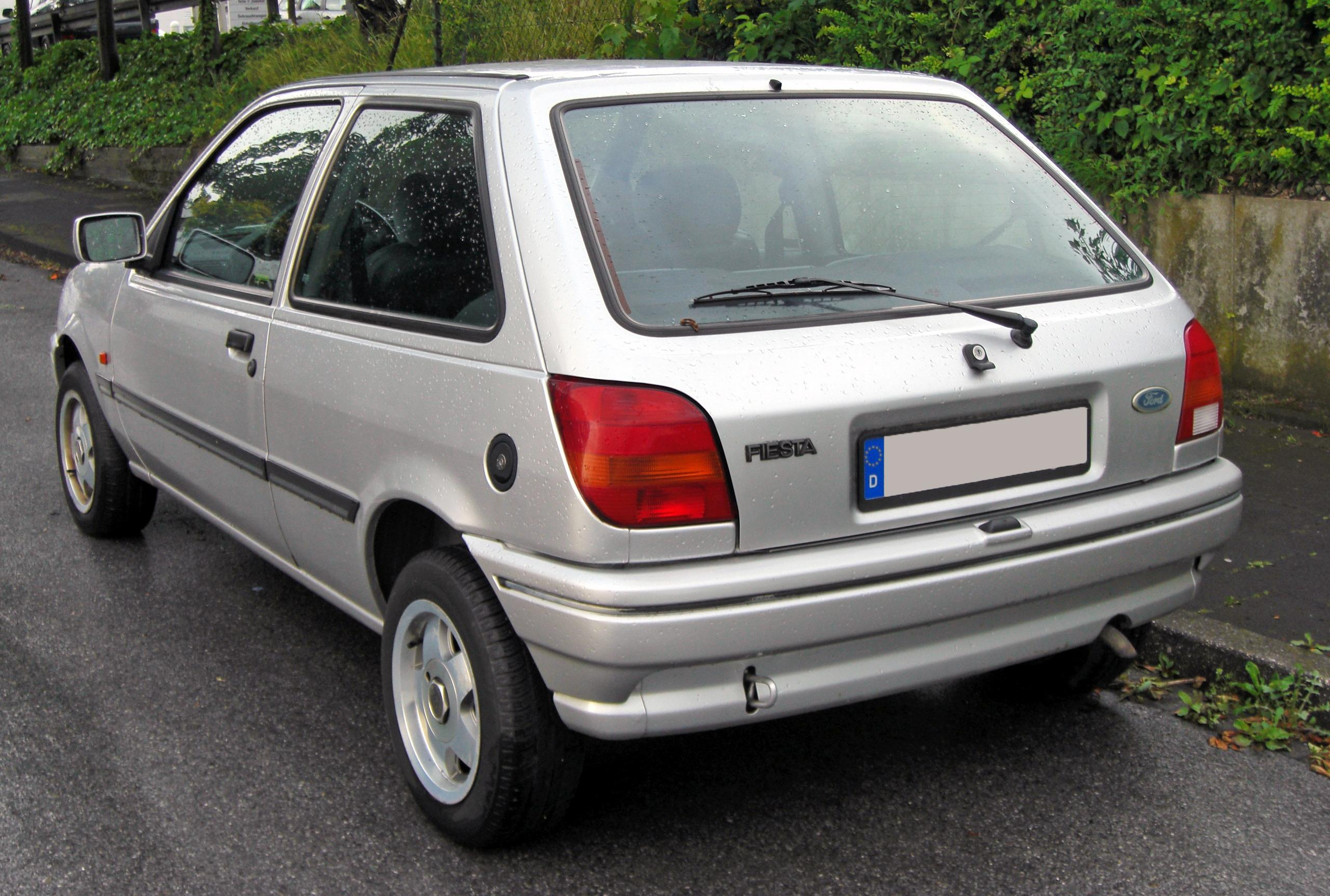 Ford Fiesta III